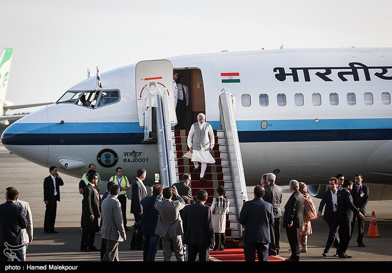 Indian Prime Minister Narendra Modi in Iran